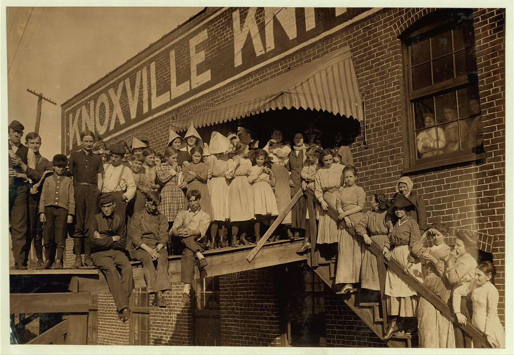 Workers at the Knoxville Knitting Works in Knoxville, Tennessee, USA. The photograph is part of a collection of child labor images taken in Knoxville by photographer Lewis Wickes Hine.